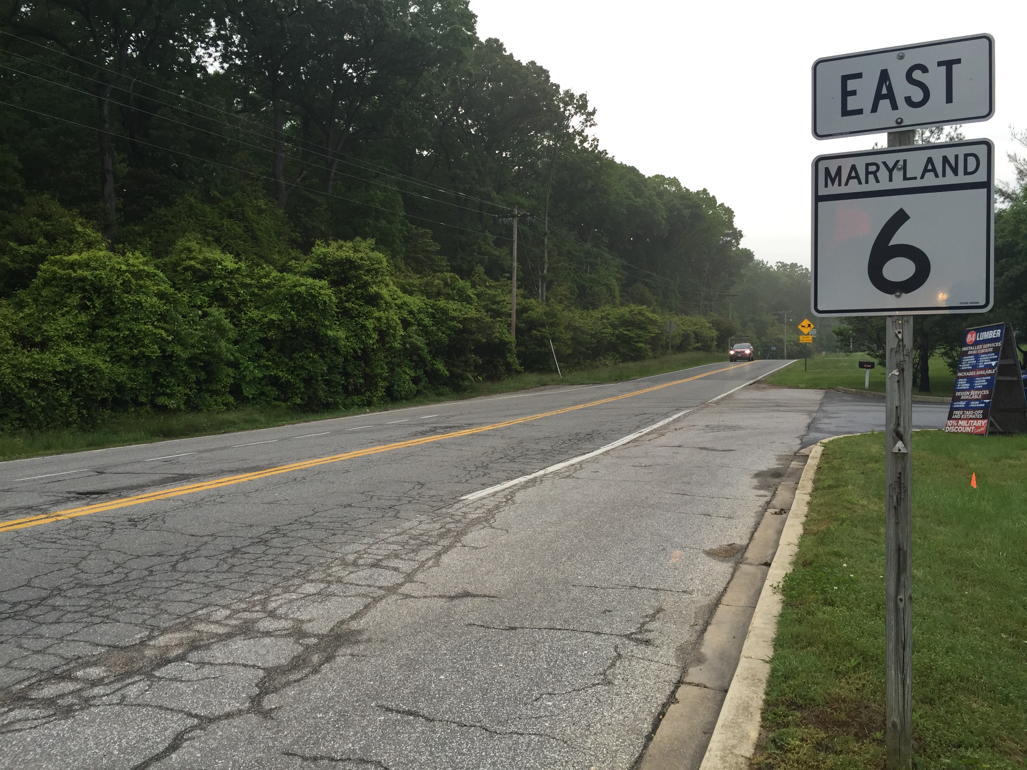 View east along New Market Turner Road (Maryland State Route 6) near Three Notch Road (Maryland State Route 5) near Charlotte Hall, St. Mary's County, Maryland